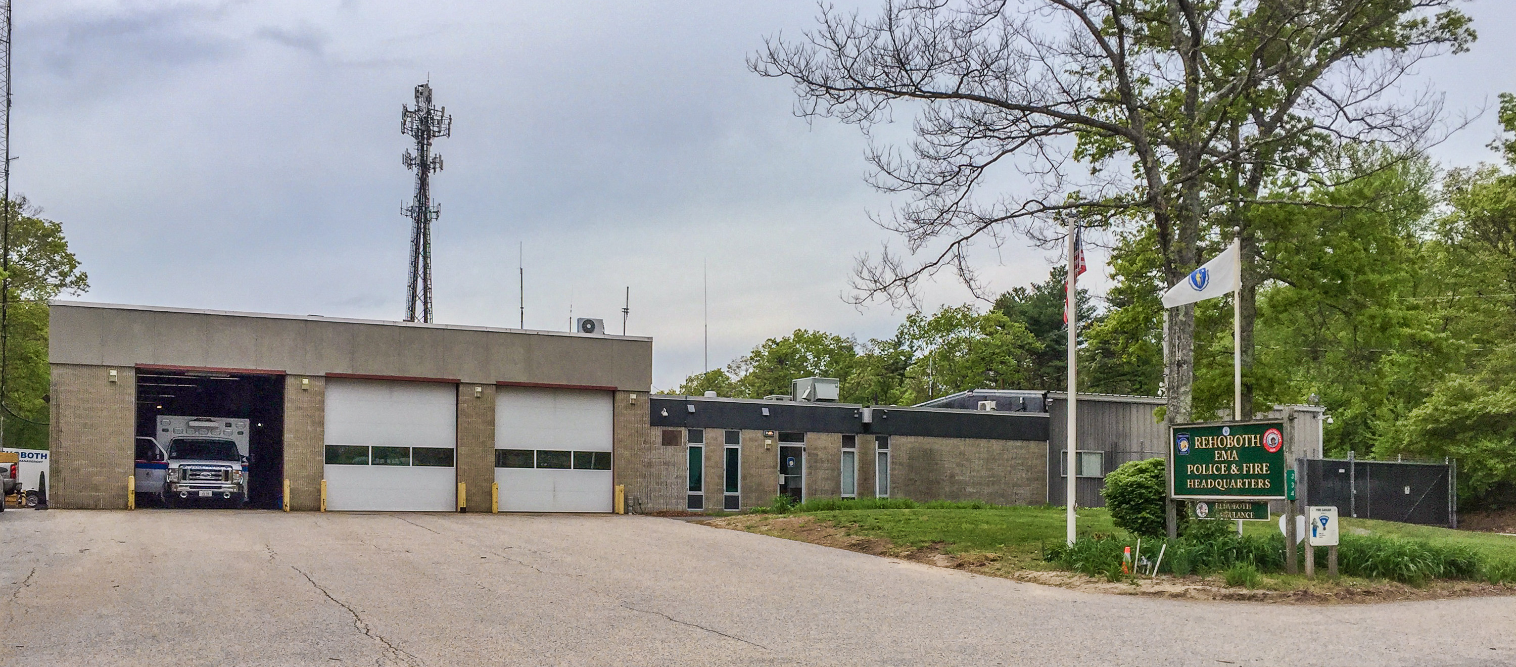 Rehoboth Police and Fire headquarters, Anawan Street, Rehoboth, Massachusetts